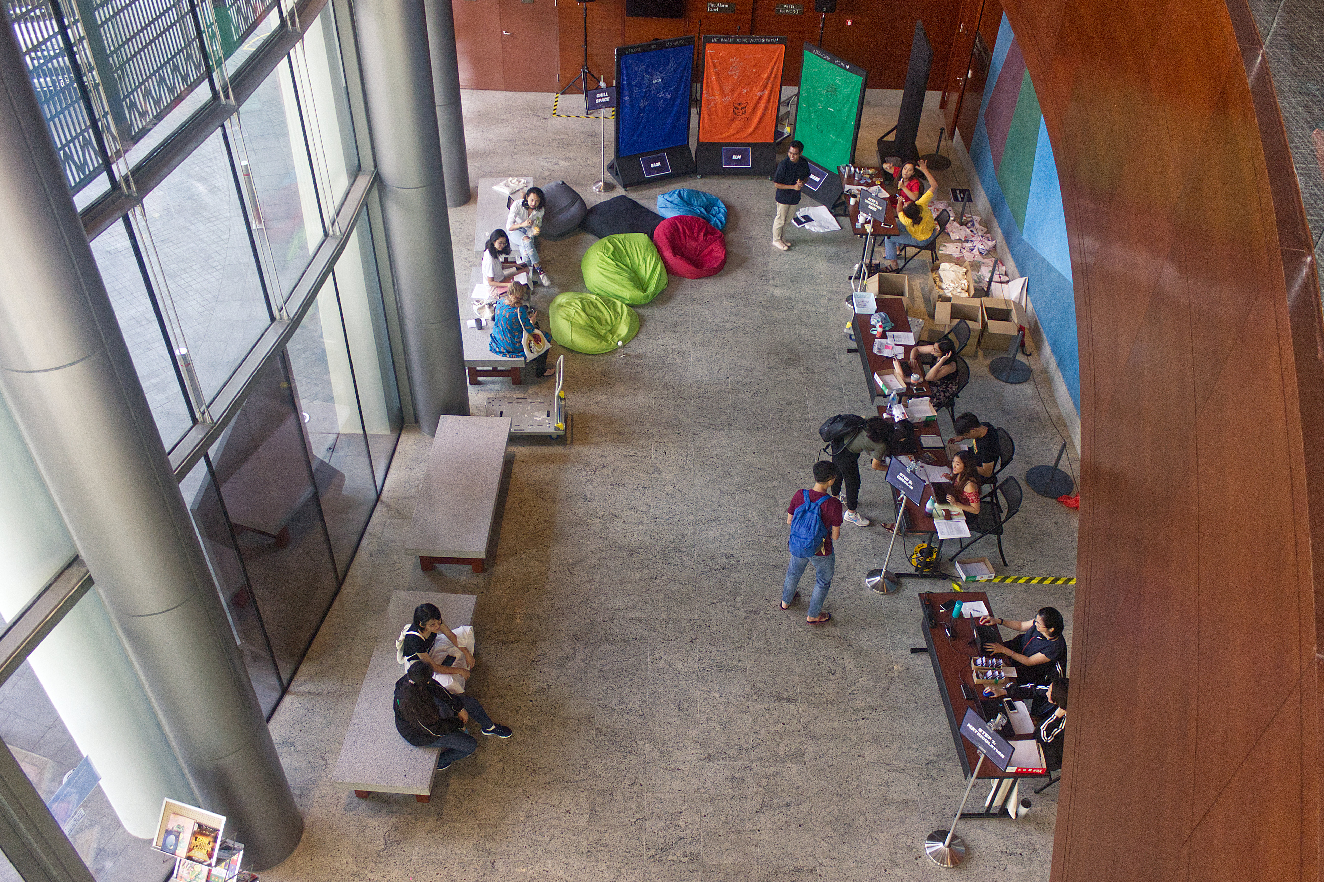 The Performance Hall Foyer at West Core, Yale-NUS College. Yale-NUS is a liberal arts college founded by the Yale University and the National University of Singapore.